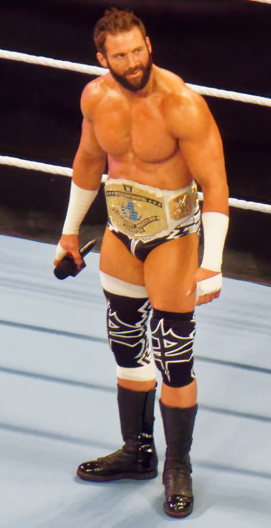 Zack Ryder as the WWE Intercontinental Champion on Raw on April 4, 2016.